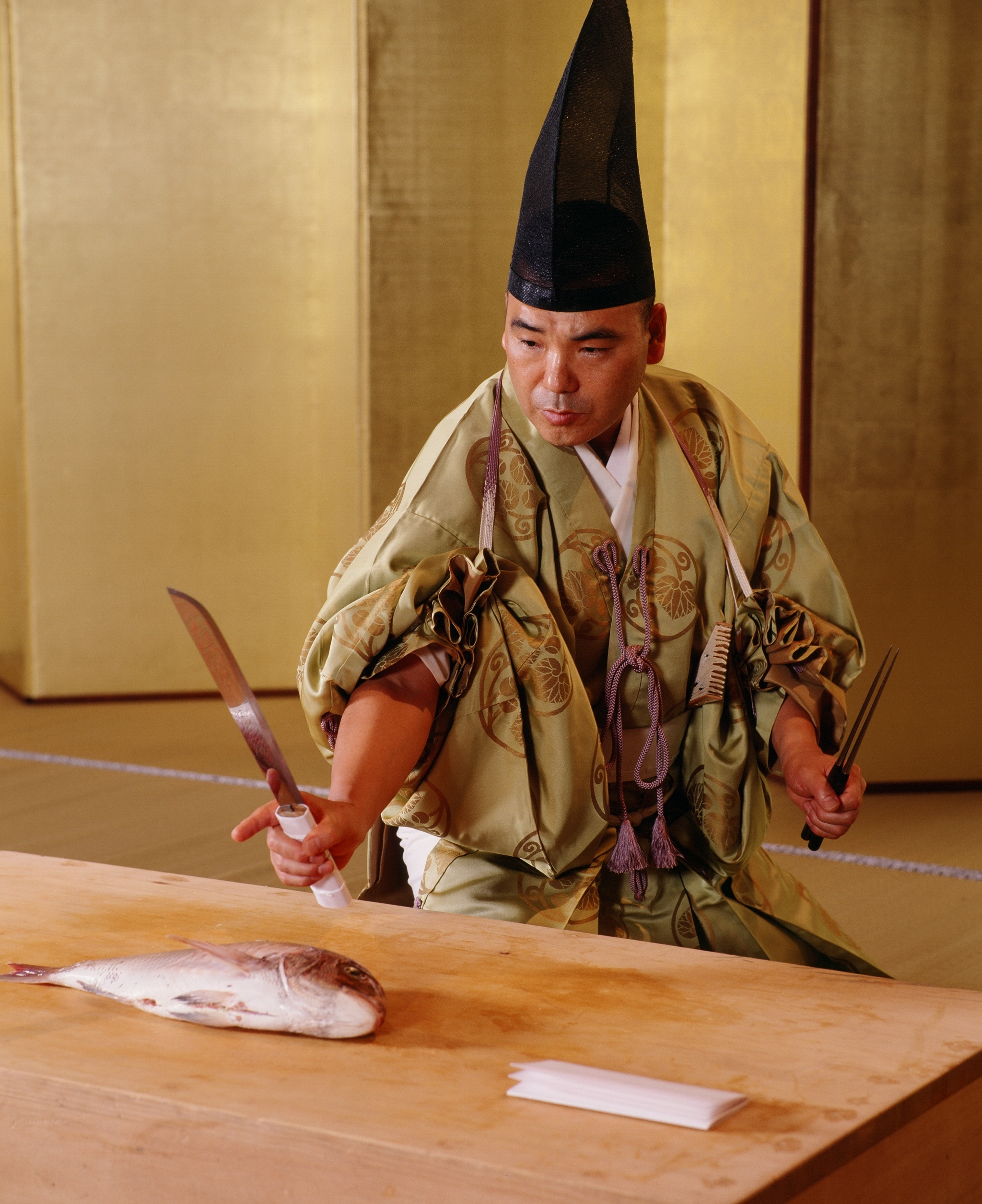 Chef Yoshimi Tanigawa of Kichisen performing Ikamaryū shikibōchō (Ikama style knife ceremony)